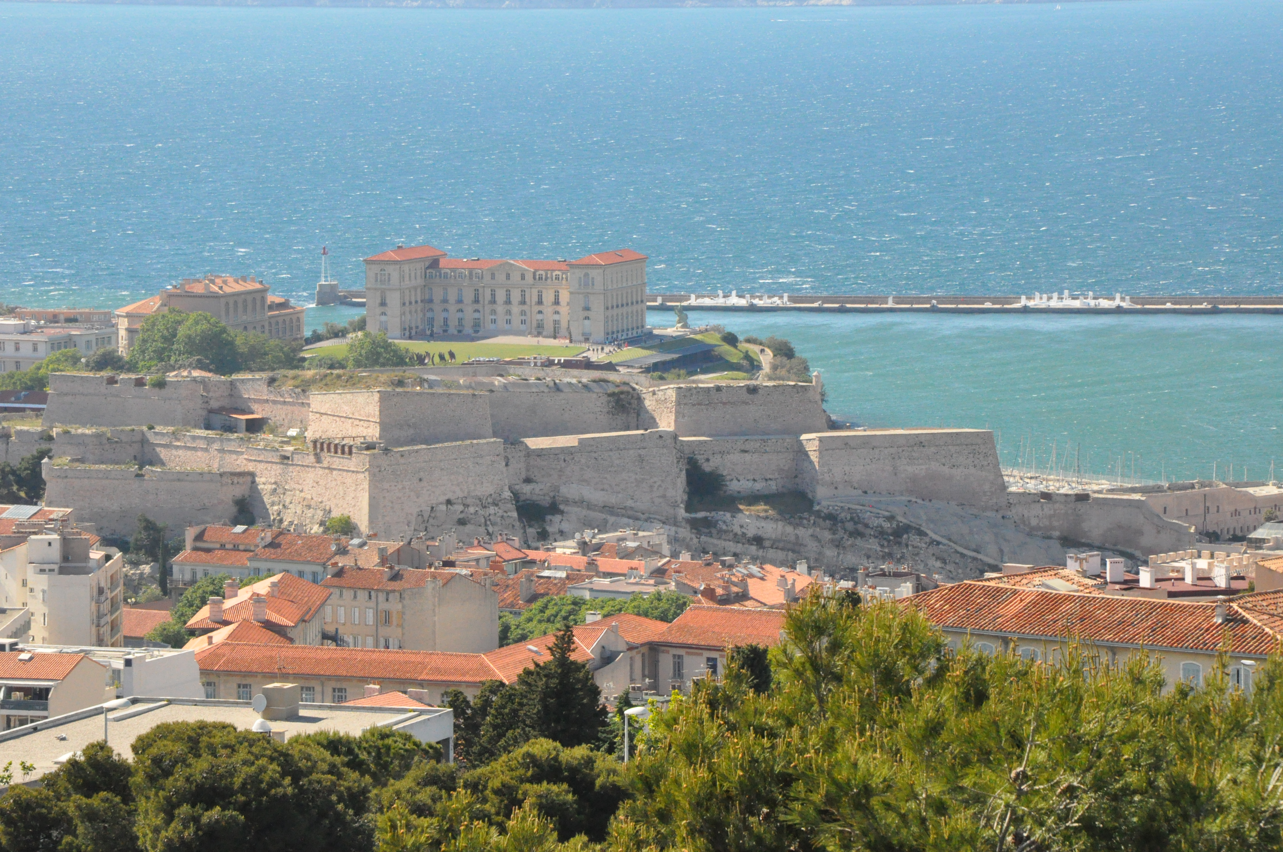 Marseille (France, Provence), Fort Saint-Nicolas and Palais du Pharo